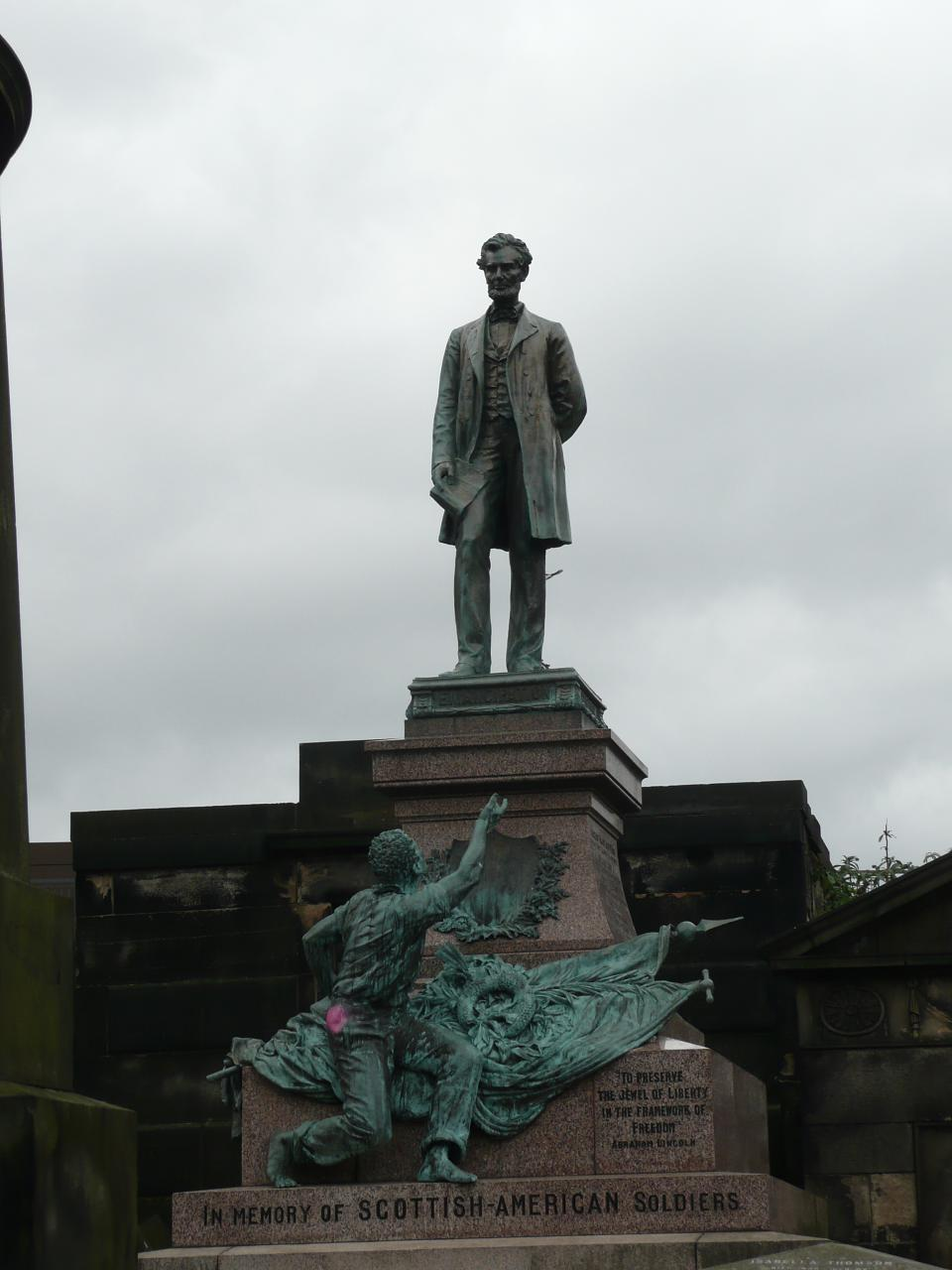 Statue for the American Scottish soldiers